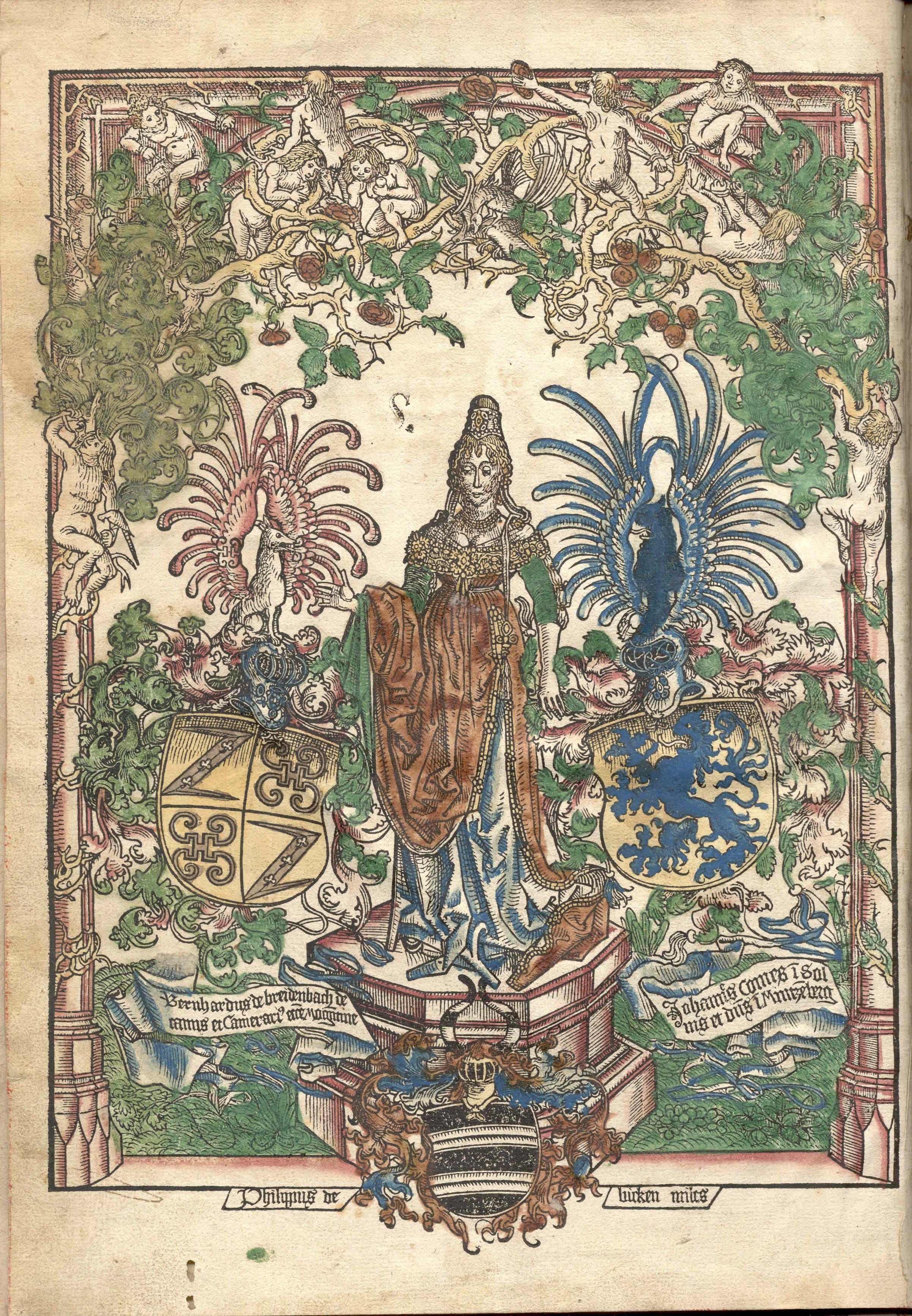 page from: Bernhard von Breydenbach, sanctae peregrinationes, Mainz: Erhard Reuwich 11. February 1486 with the colored illustration of the frontispiece